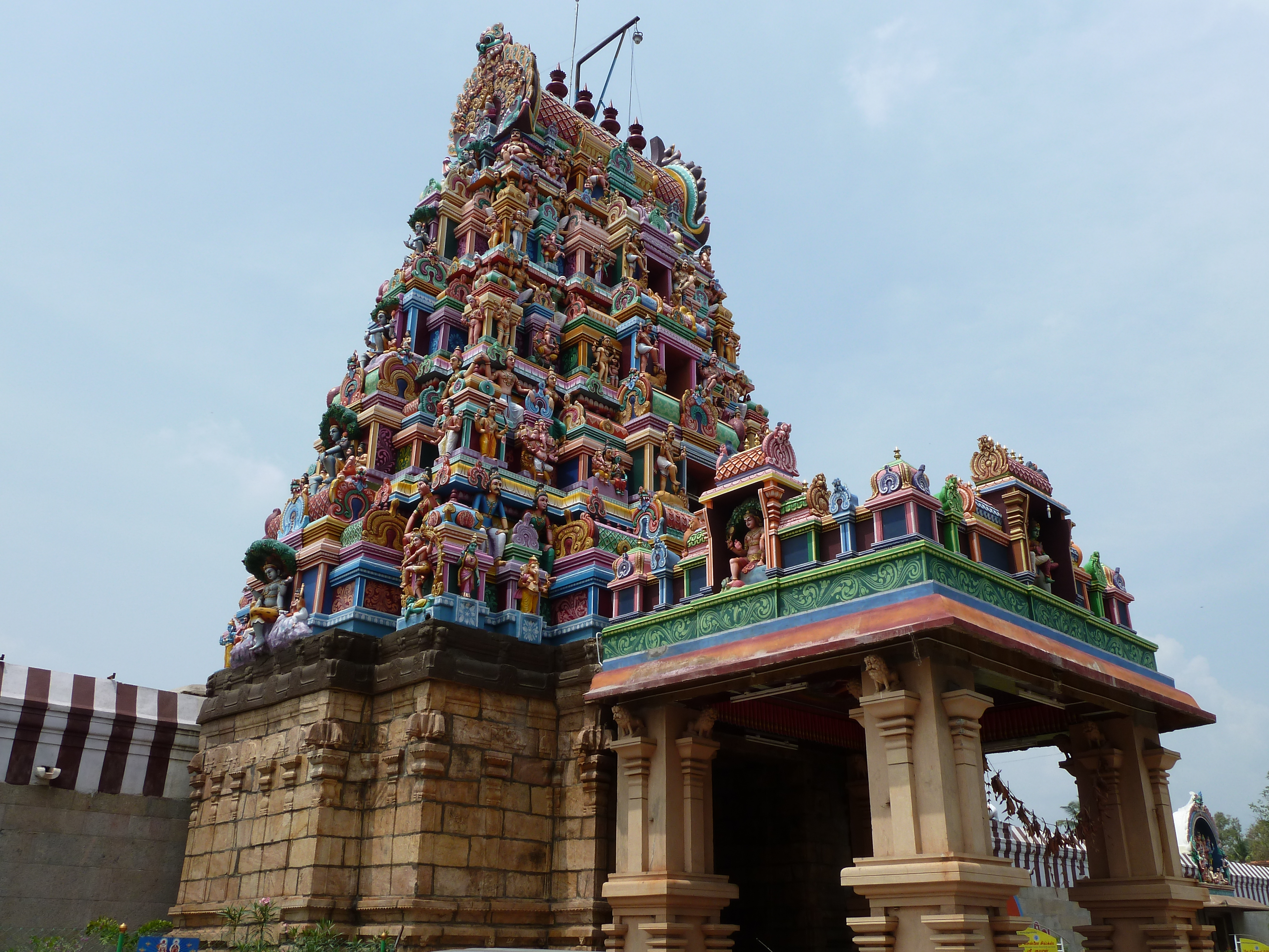 The photo shows the entrance vimahana (tower) of Perur Patteshwarar temple, Coimbatore, India